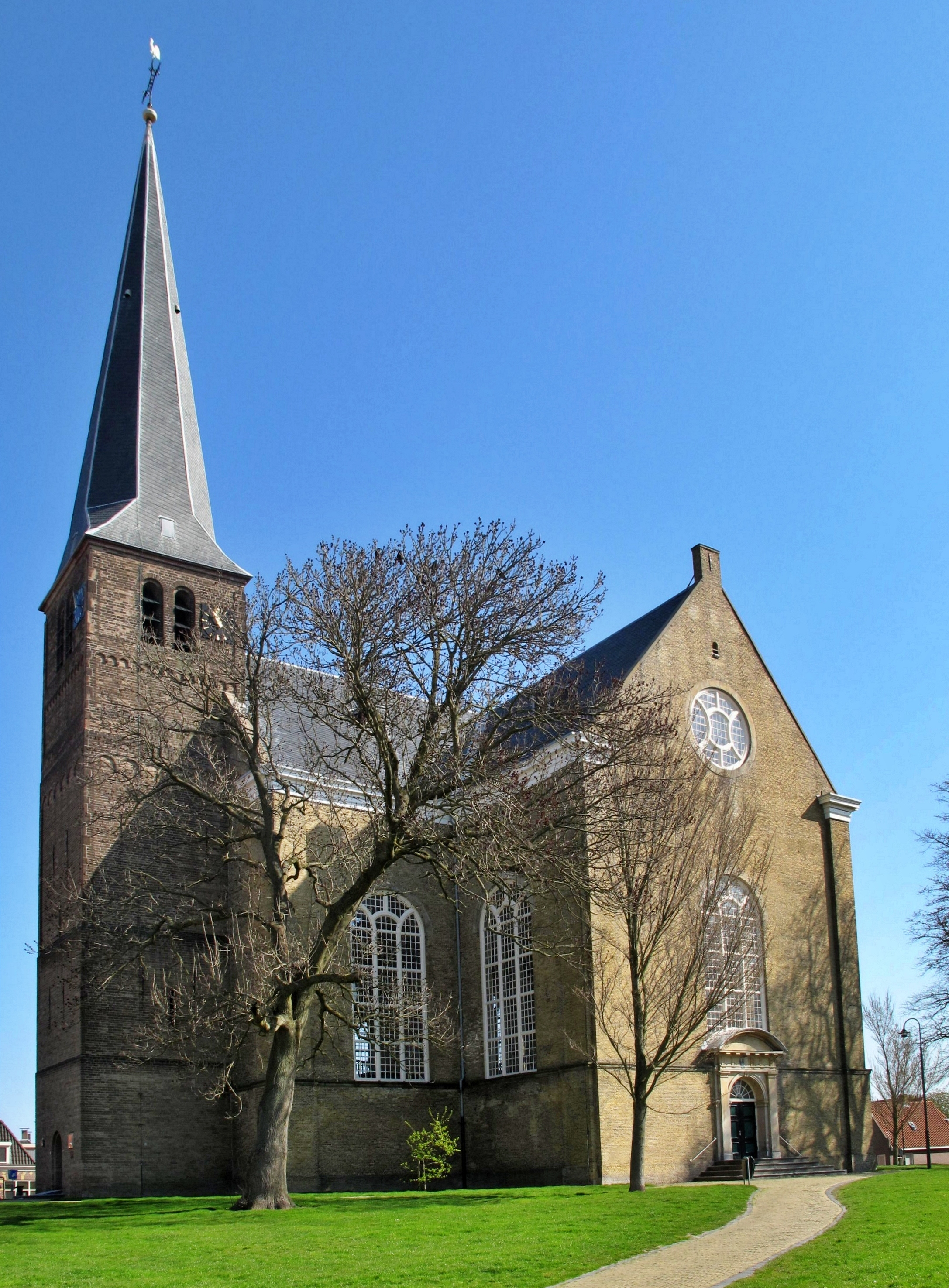 Harlingen, church